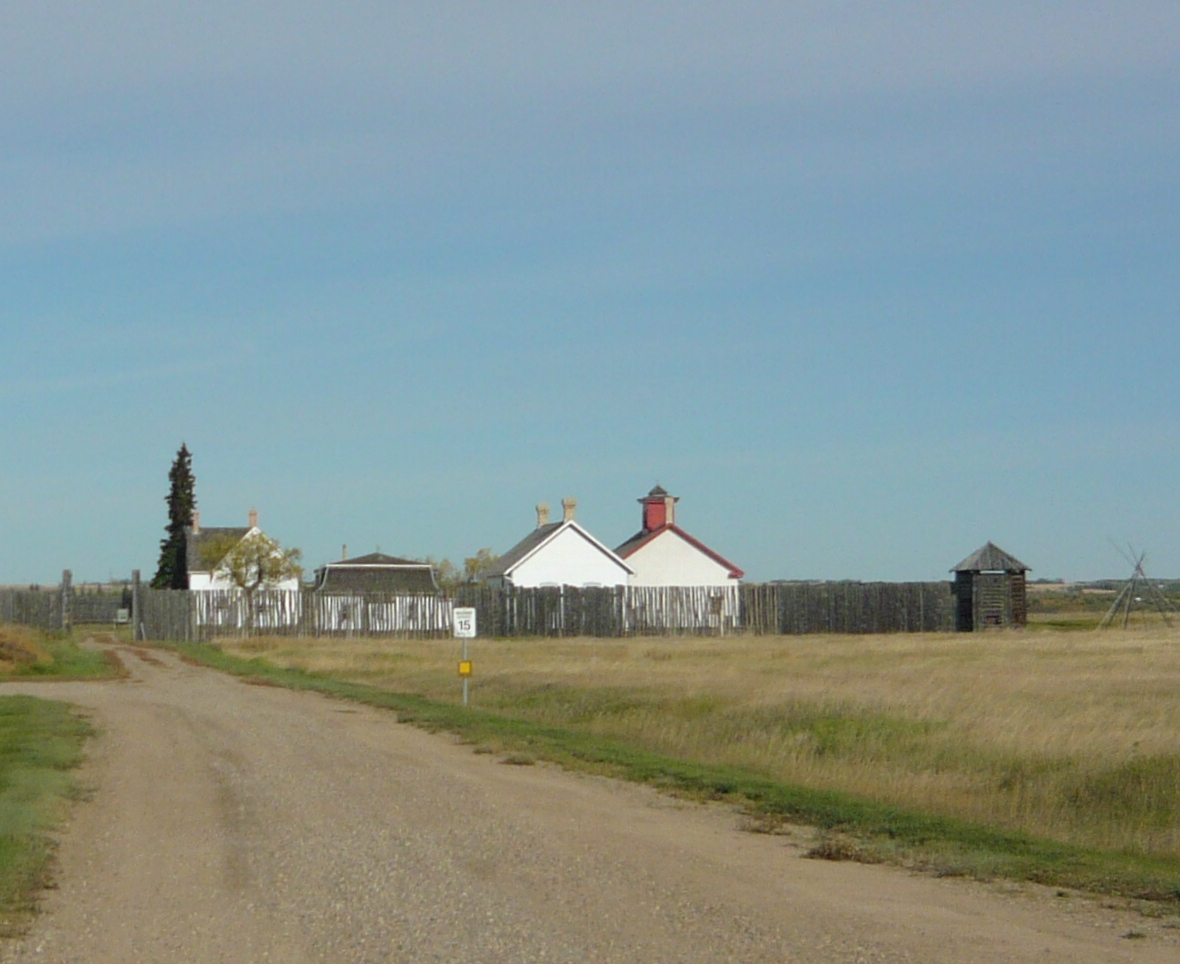 Fort Battleford National Historic Site, near Battleford, Saskatchewan, Canada. Looking northeastward from park gate on Central Avenue.